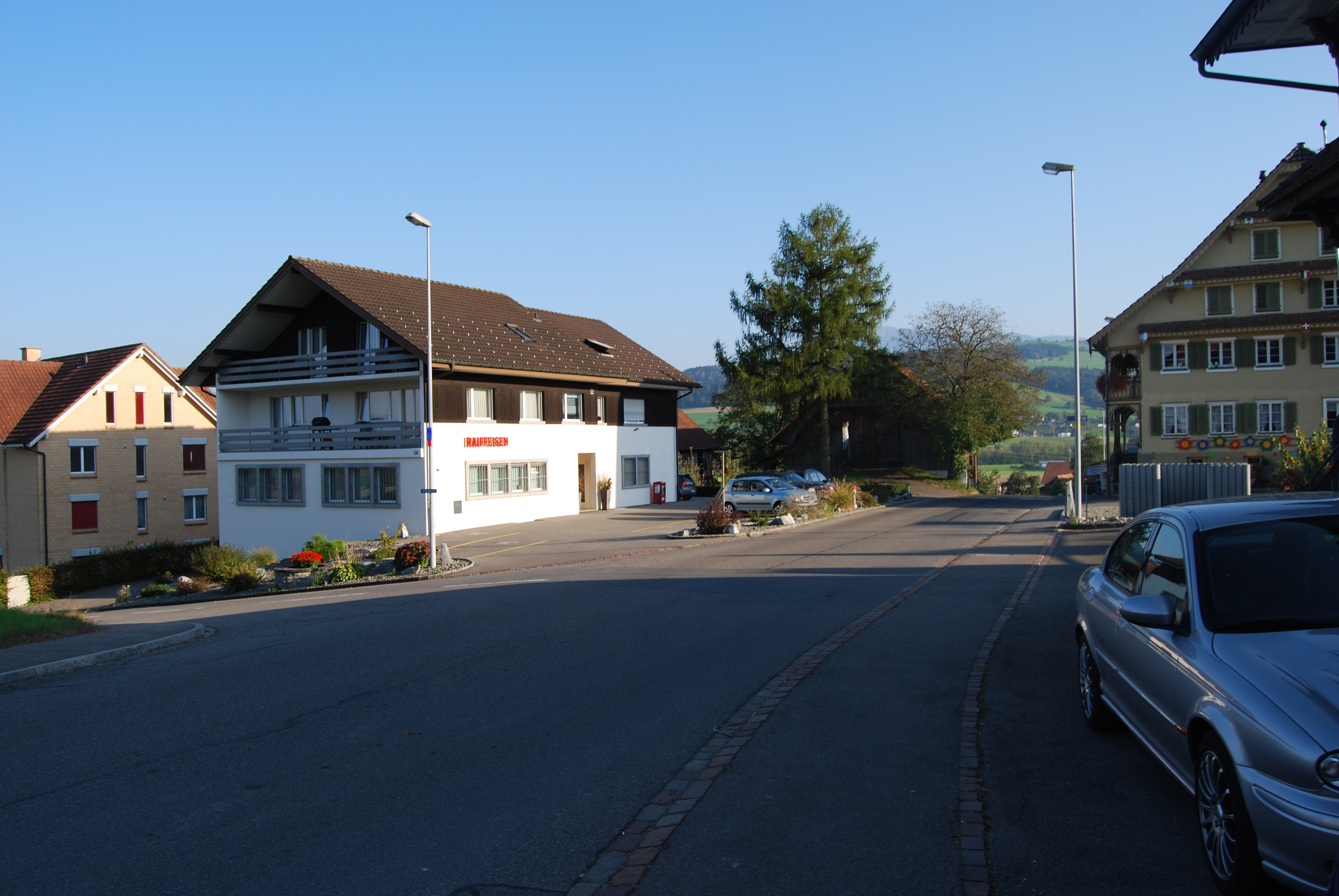 Dietwil, canton of Aargau, SwitzerlandEsperanto: Dietwil, Kantono Argovio, Svislando